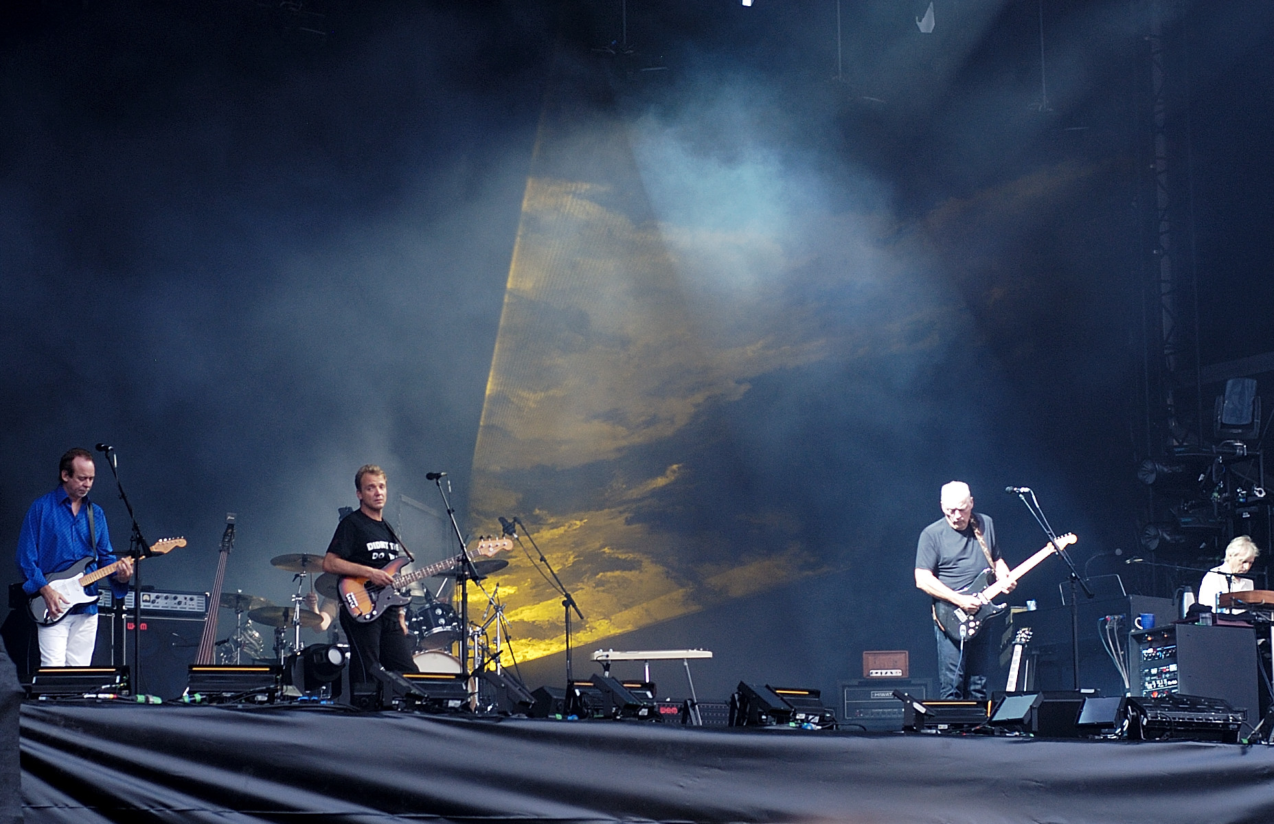 David Gilmour in concert in Munich, Germany : Manzanera, Pratt, Gilmour, Wright..."Pocketful of Stones"